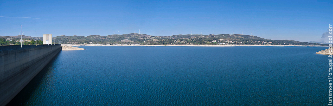 The second biggest artifial lake in Portugal Unknown